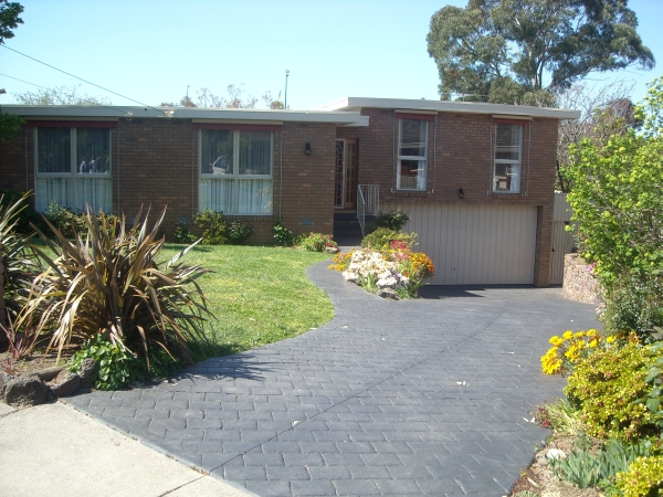 No. 30, Ramsay Street from TV show, Neighbours